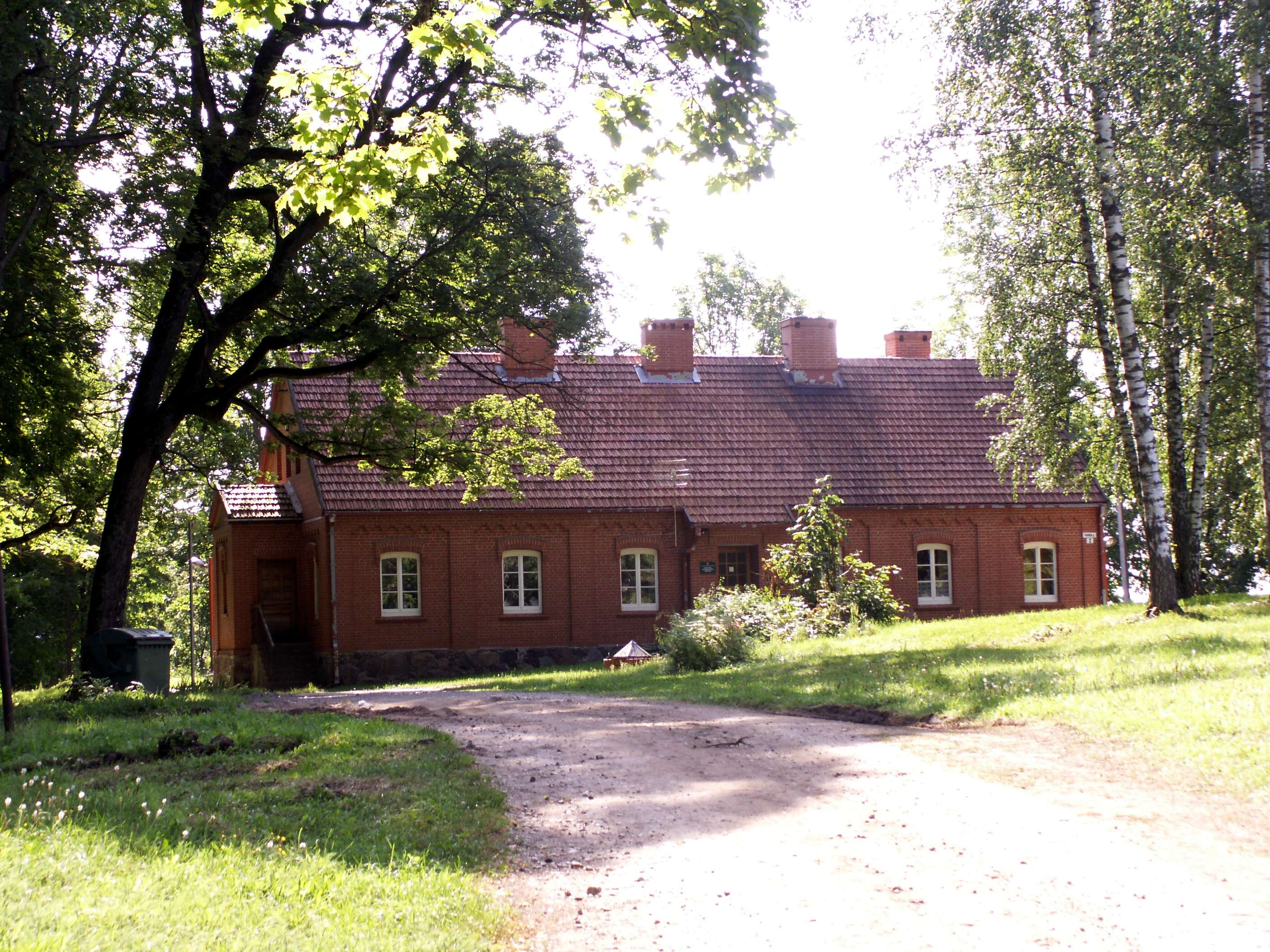 Kurtuvėnai, Kurtuvėnai regional park, Lithuania